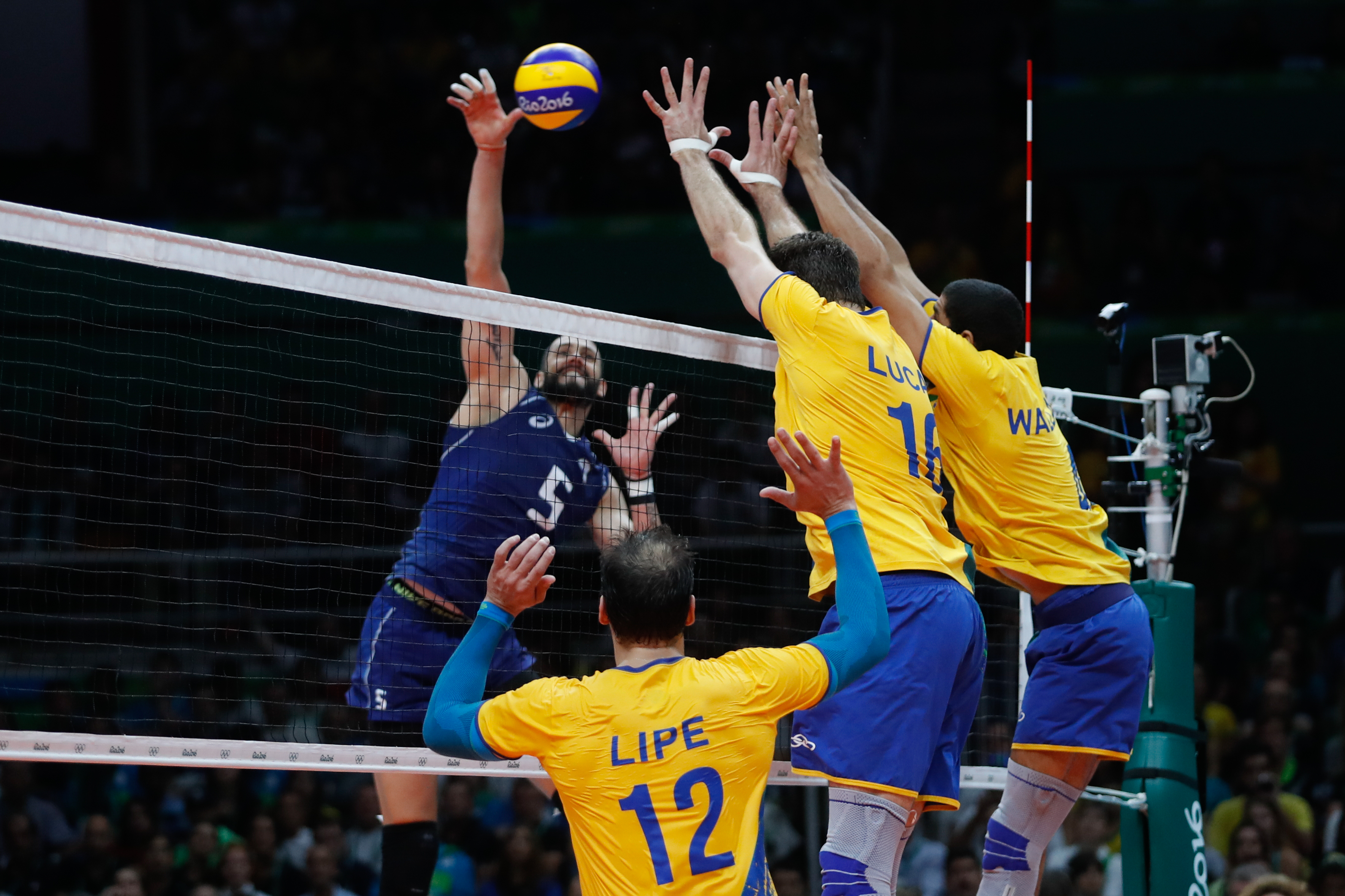 Rio de Janeiro - Seleção brasileira de vôlei disputa contra a Itália a final dos Jogos Olímpicos Rio 2016 no Maracanãzinho(Fernando Frazão/Agência Brasil)